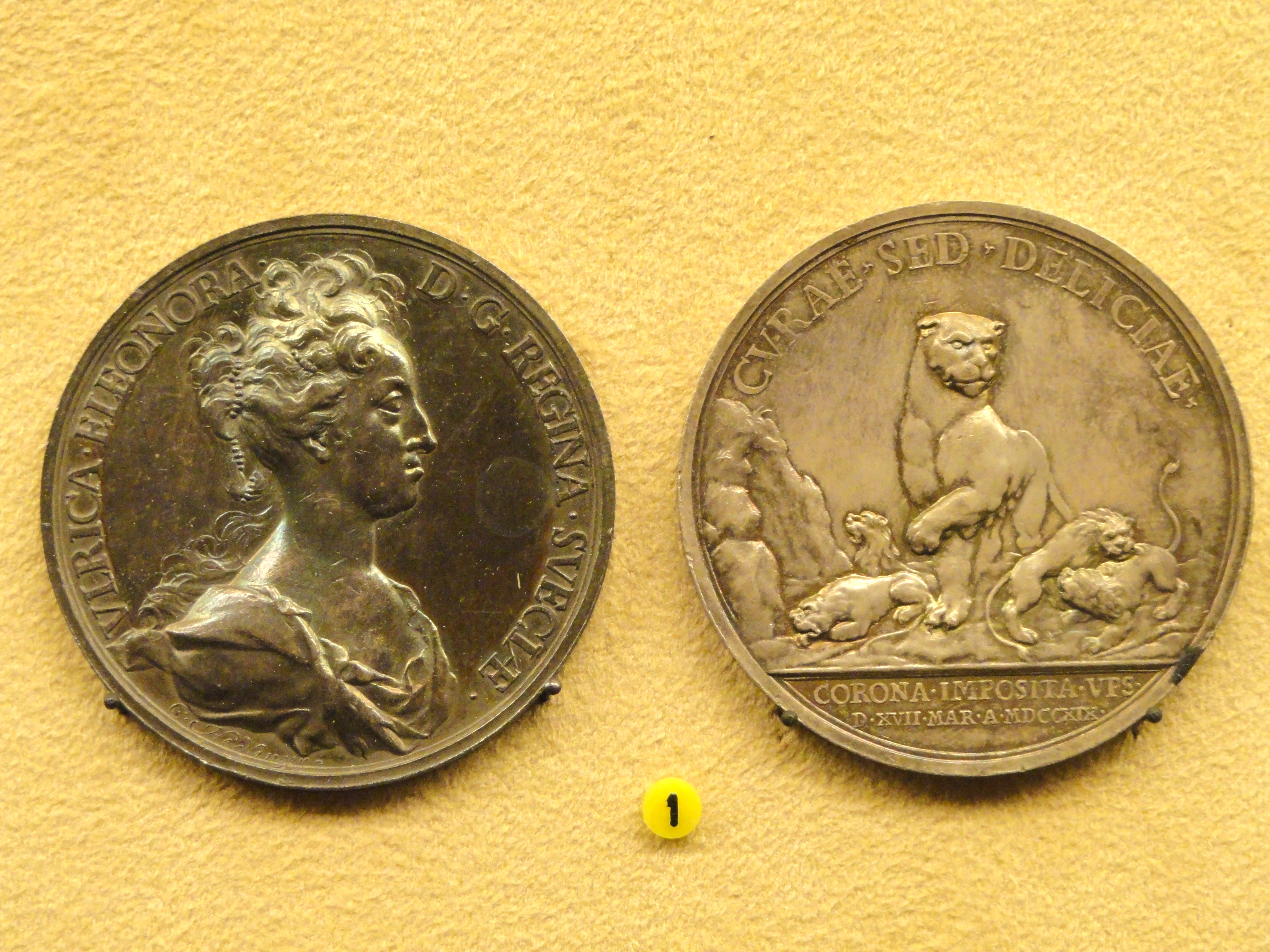 Coin / medal in the National Museum of Finland, Helsinki, Finland. This artwork is in the public domain because the artist(s) died more than 70 years ago.